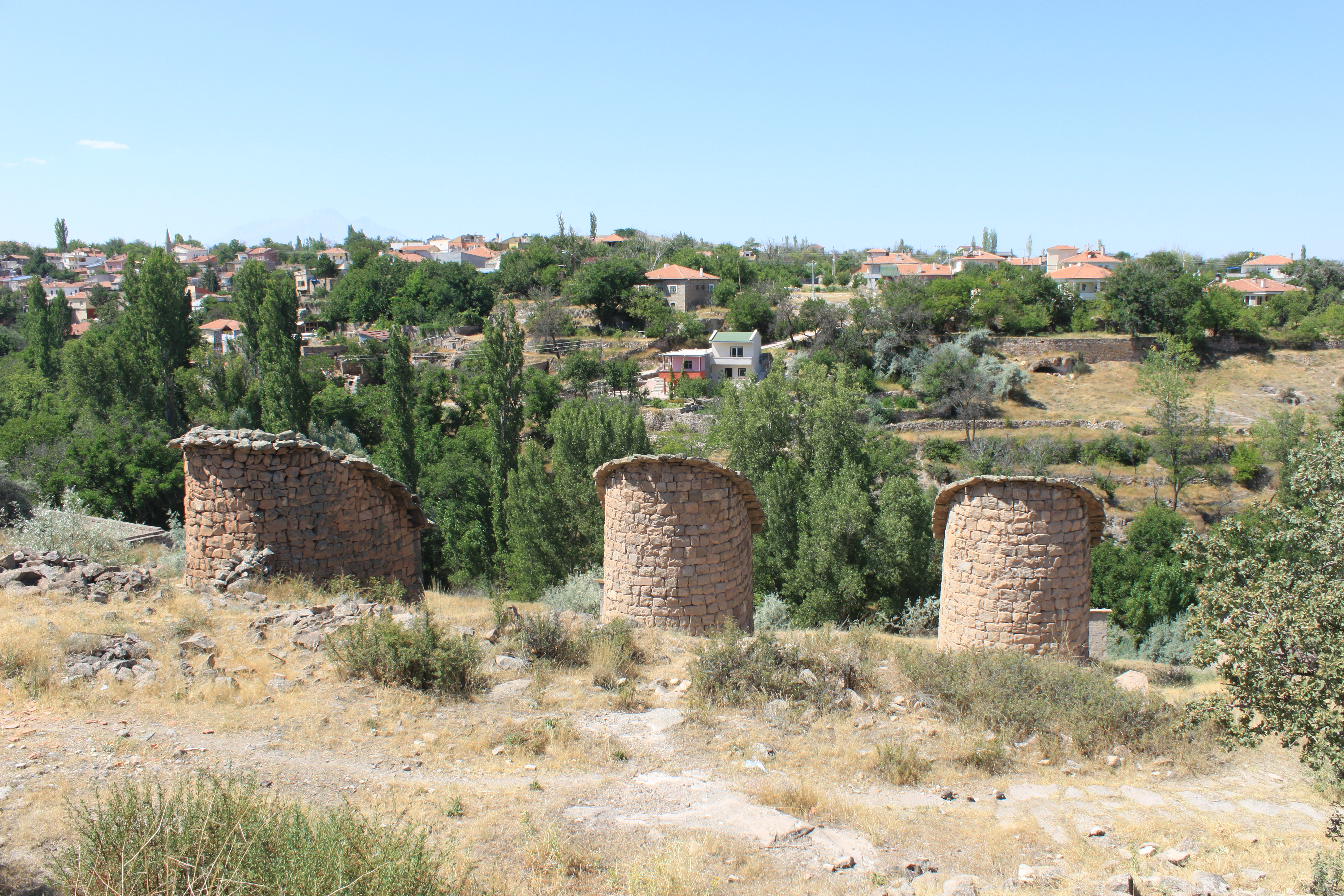 Greek dovecotes from the beginning of the 20th century in Gesi near Kayseri, Turkey.